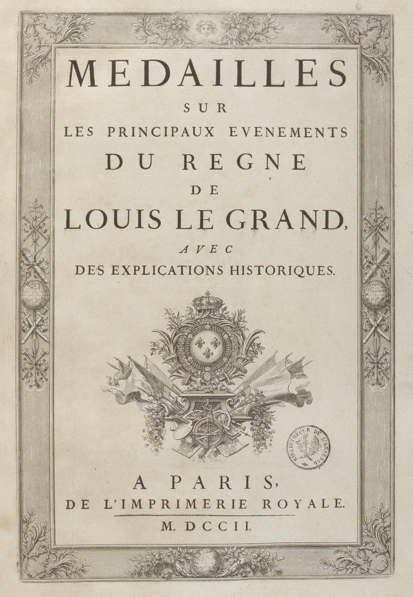 Title page of Médailles sur les principaux événements du regne entier de Louis le Grand, 1702